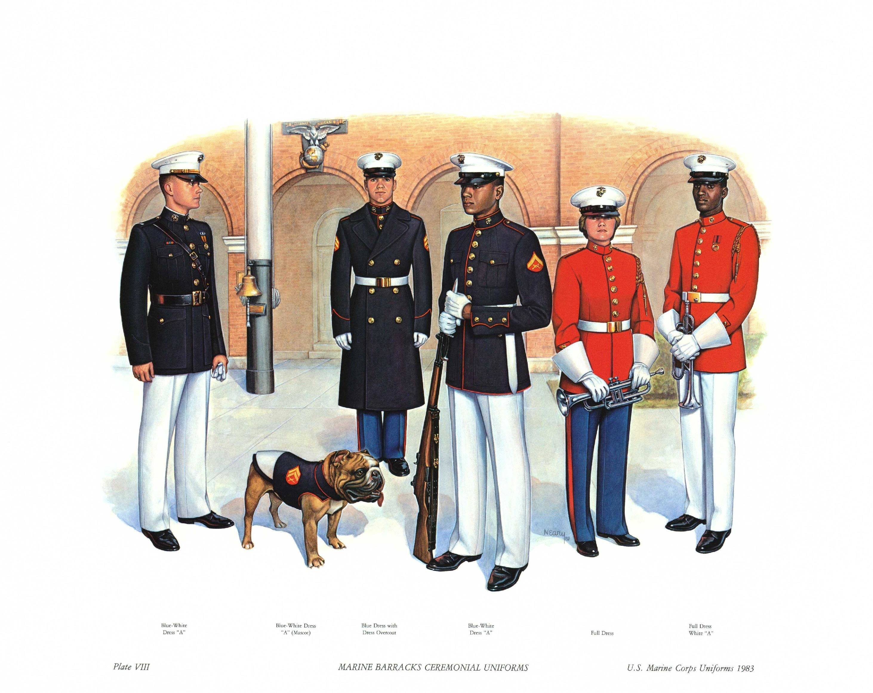 Marine Dress White and Drum Corps Uniforms and